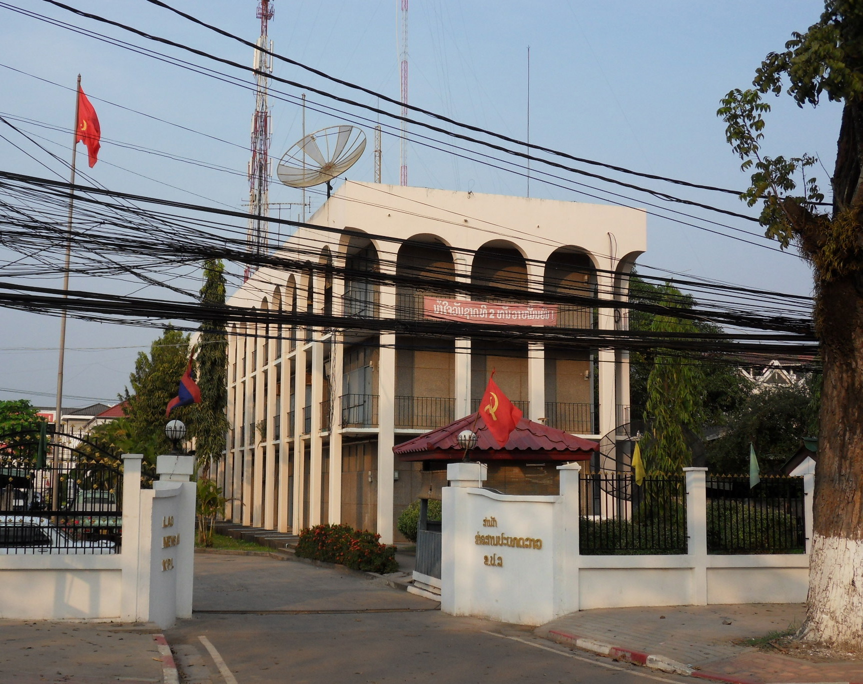 Building of the Khaosan Pathet Lao in Vientiane, Laos